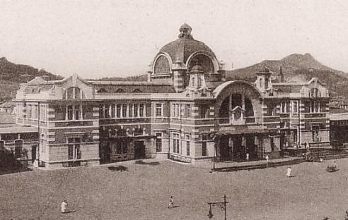 Keijo(Seoul) Station